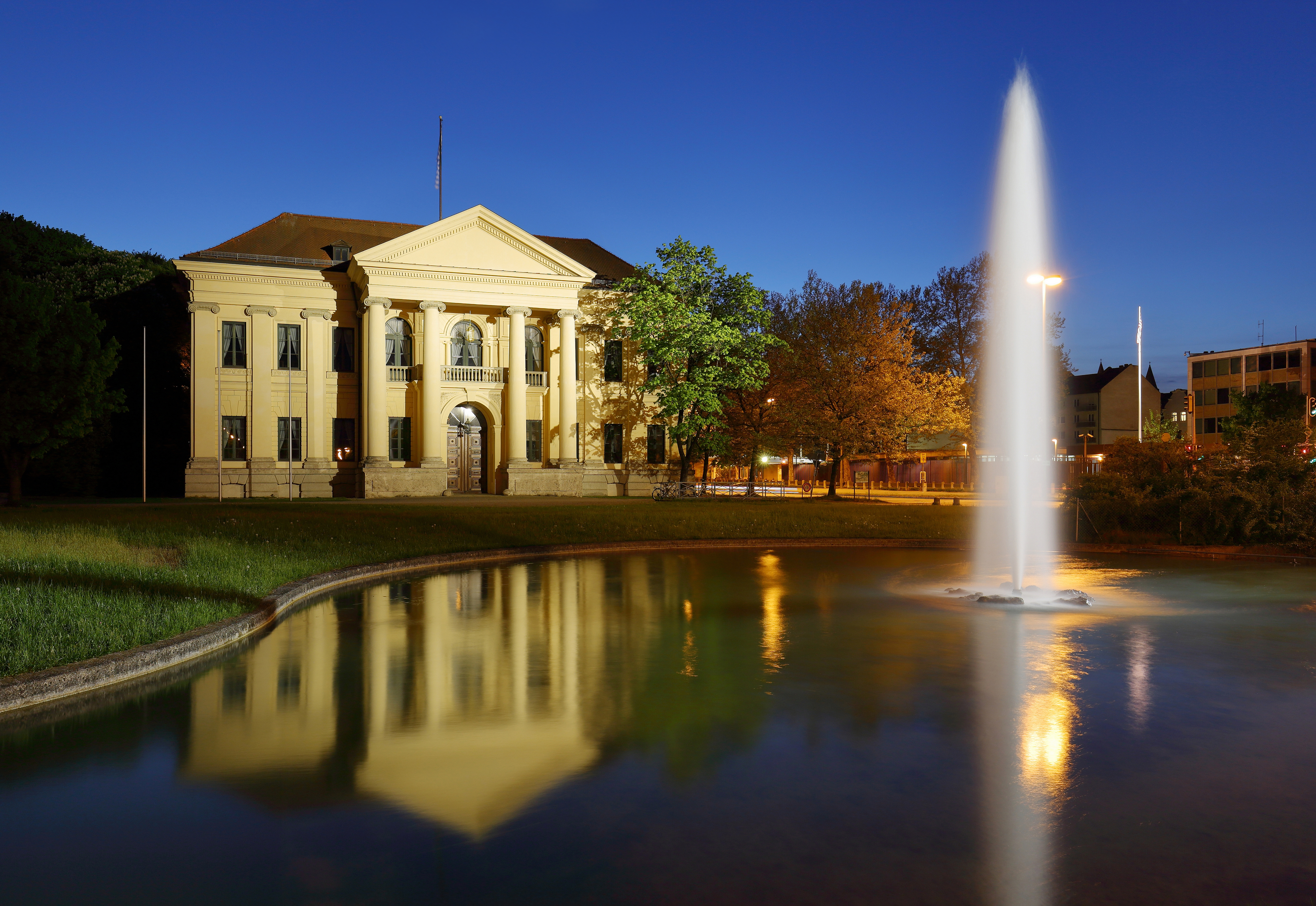 The Prinz Carl Palais, Munich, is a mansion built in the style of Neoclassicism between 1804–1806. Today the state of Bavaria uses it for representative purposes.